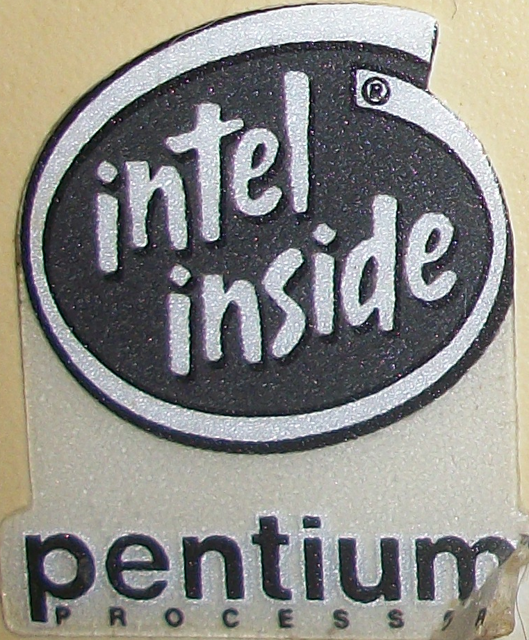 Intel's sticker for the Pentium processor, circa 1993.